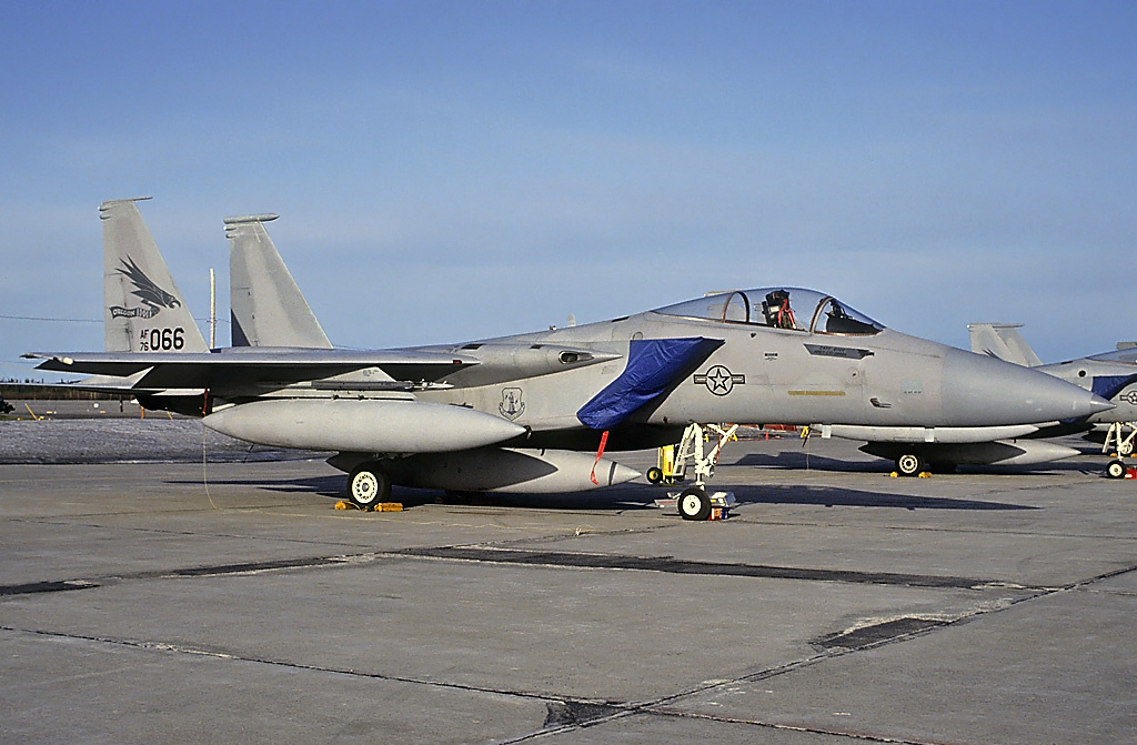 USAF F-15 at CFB Goose Bay, Labrador.